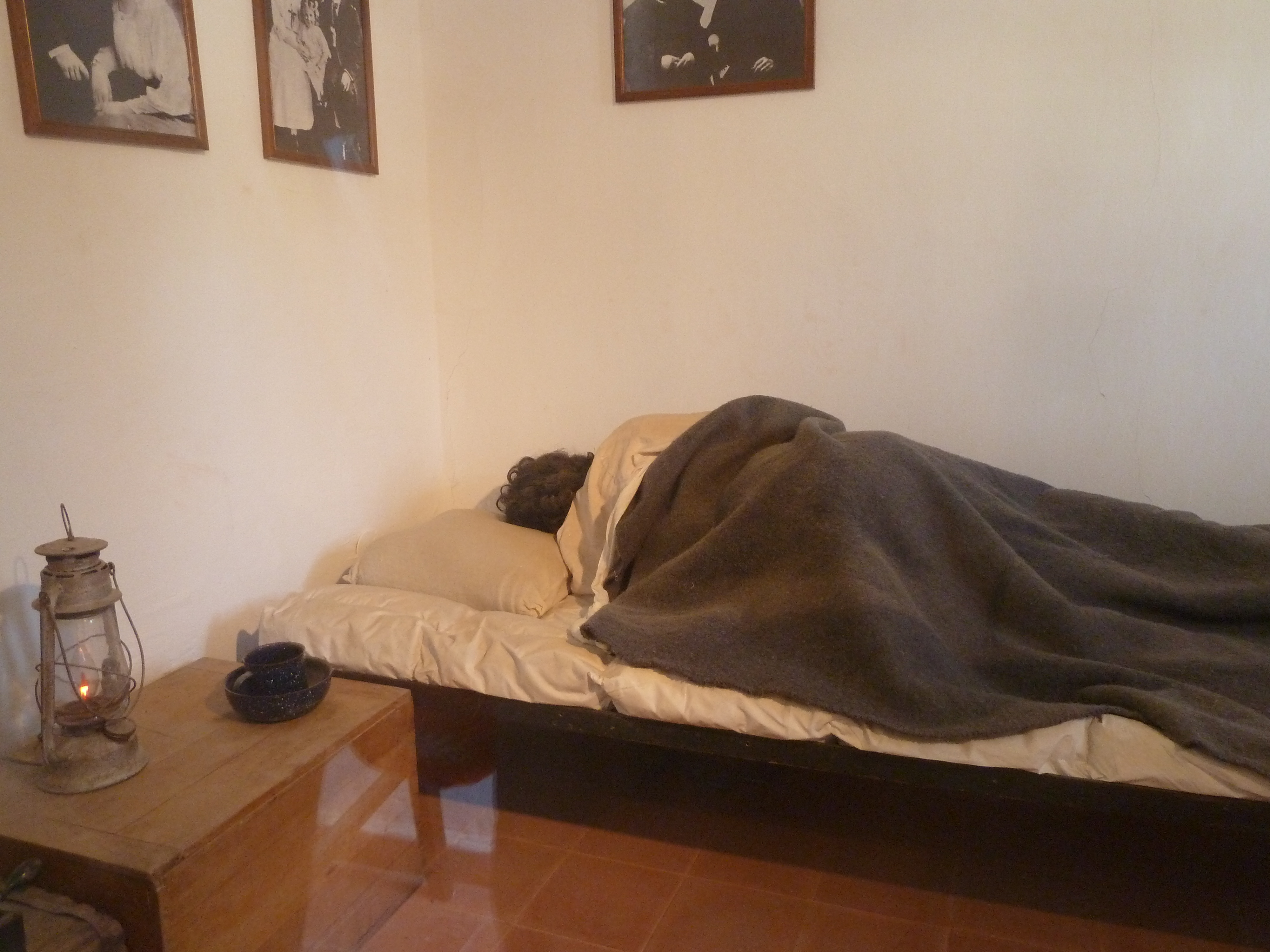 Golda Meir's Room, the Large Yard at Merhavia (Merhavia Courtyard)